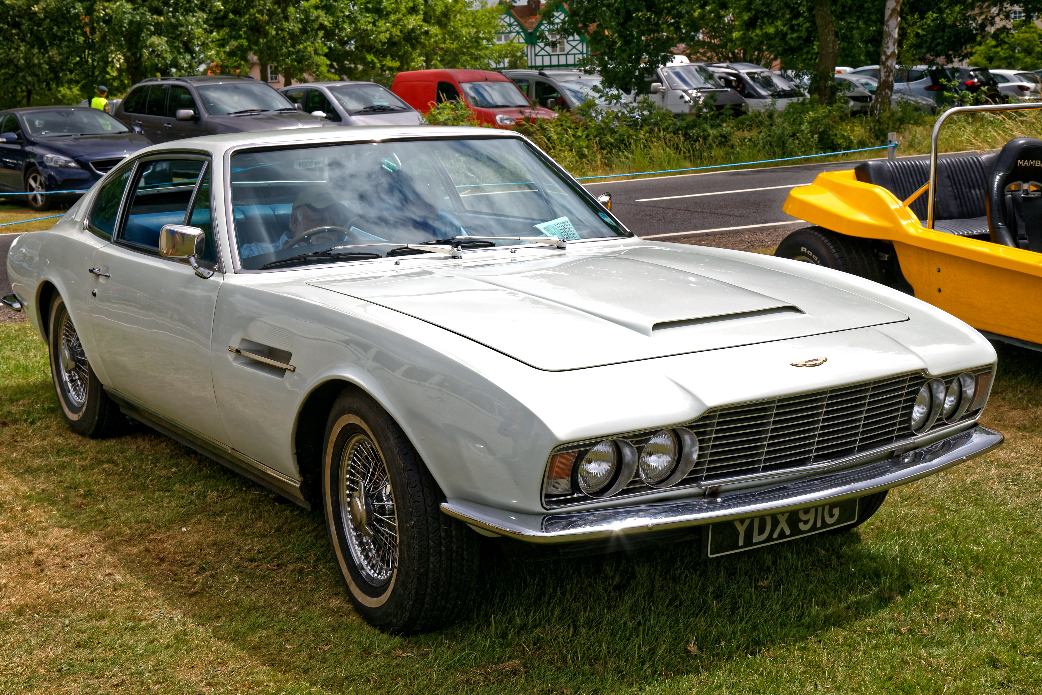 1968 Aston Martin Aston 4 litre (3995cc) DBS coupé at Hatfield Heath Festival 2017, on Hatfield Heath village green, Essex, England.Camera: Canon EOS 6D with Canon EF 24-105mm F4L IS USM lens.Software: RAW file lens-corrected, optimized and converted to JPEG with DxO OpticsPro 11 Elite, and likely further optimized and/or cropped and/or spun with Adobe Photoshop CS2.